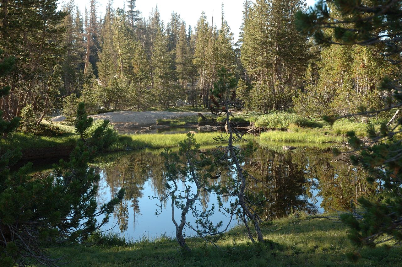 Ponds near Cathedral Lake, Yosemite